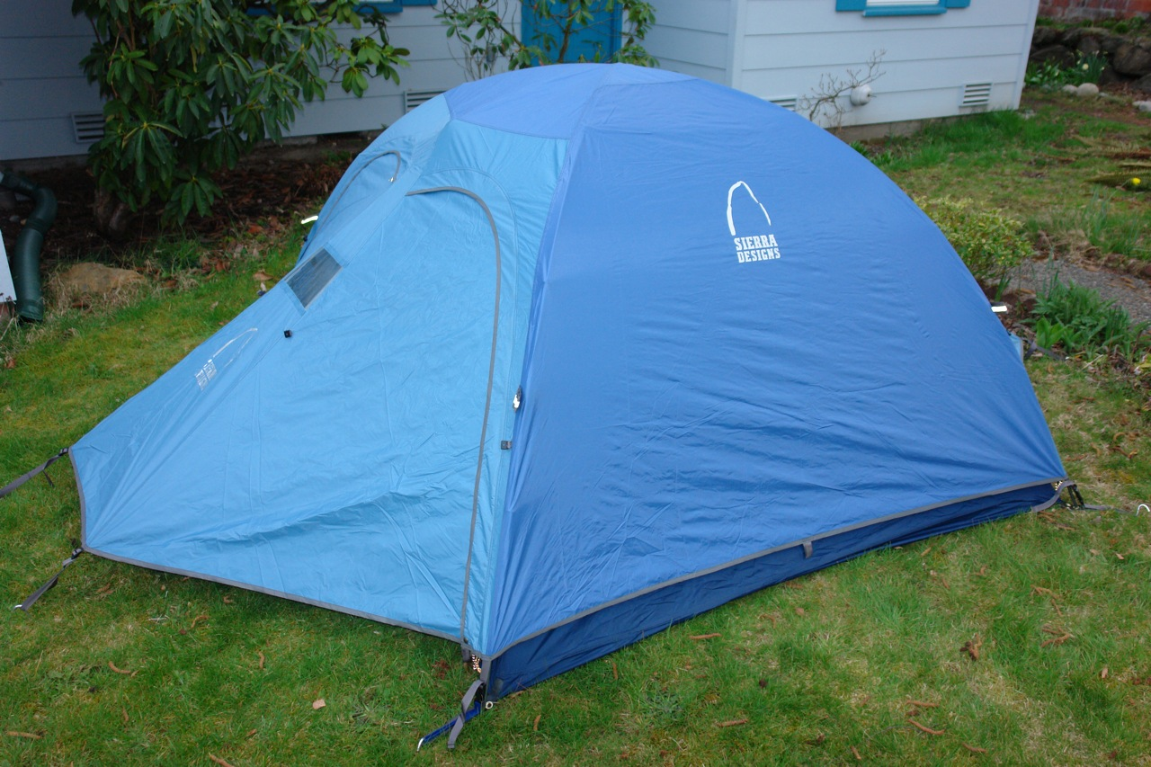 3/4 view, rain fly on and closed.